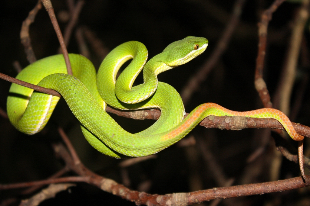 Bamboo Pit Viper (Cryptelytrop albolabris) Tsui Hang area, just a few feet away from another bamboo viper.